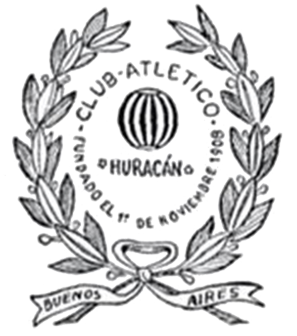 First logo of Argentine Club Atlético Huracán, with the "H".